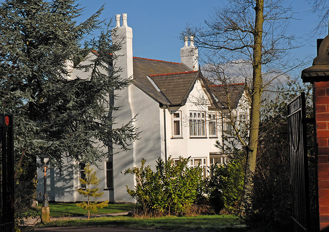 Bryn Hall Bryn Hall - Bamfurlong